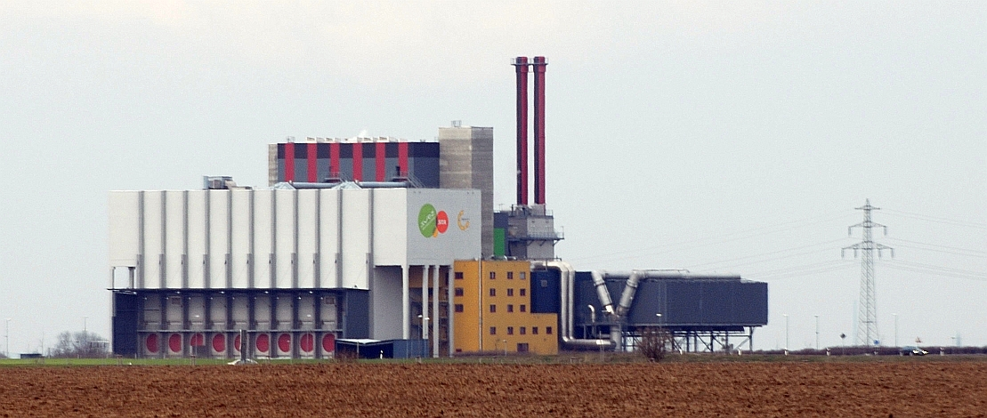 Zorbau incineration plant of SITA Abfallverwertung GmbH, a waste management company. Road shot from Bundesautobahn 9. SITA is a subsidiary of GDF Suez.